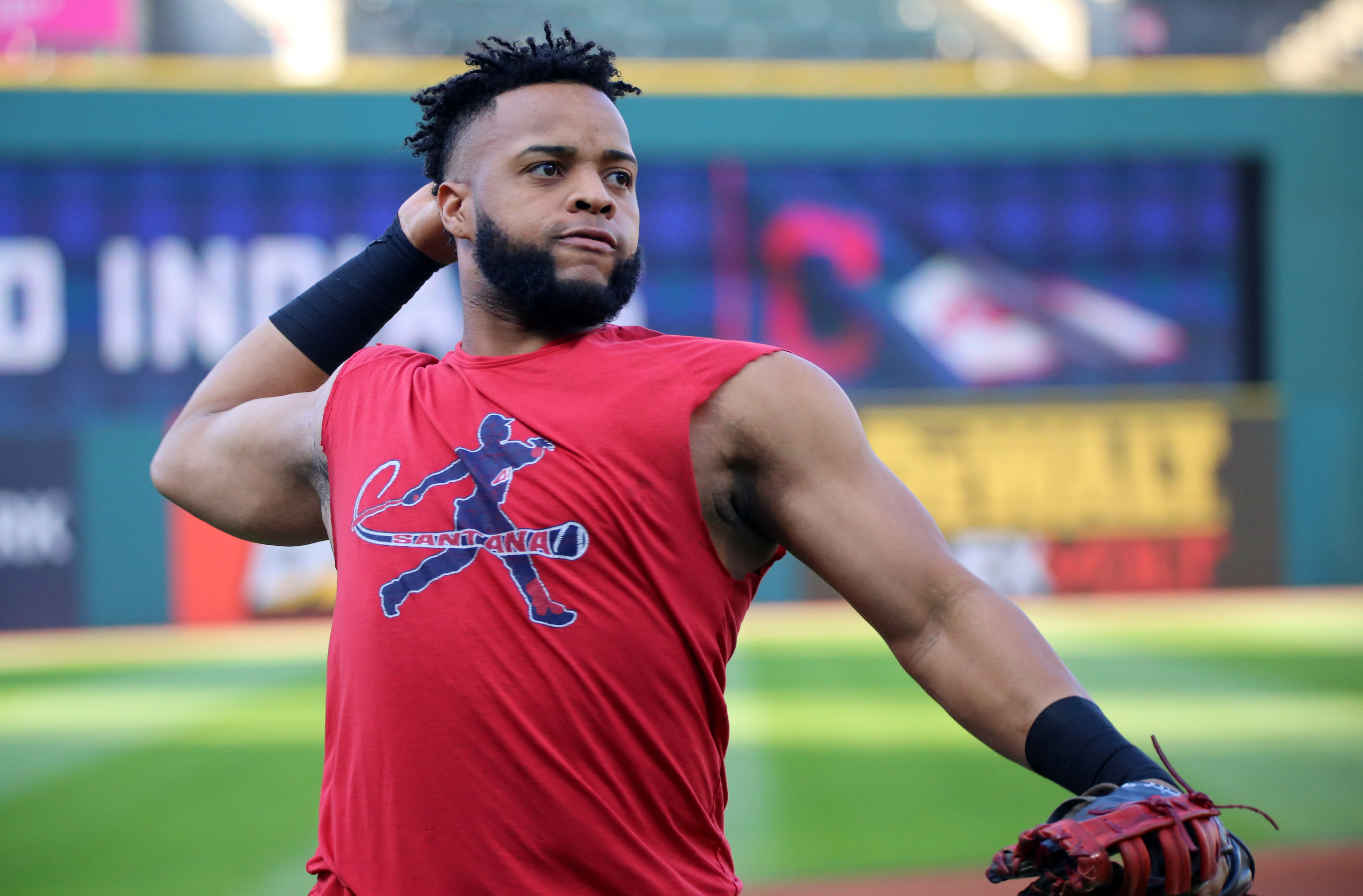 Indians first baseman Carlos Santana works out before ALDS Game 1.